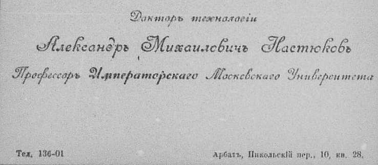 Visiting card